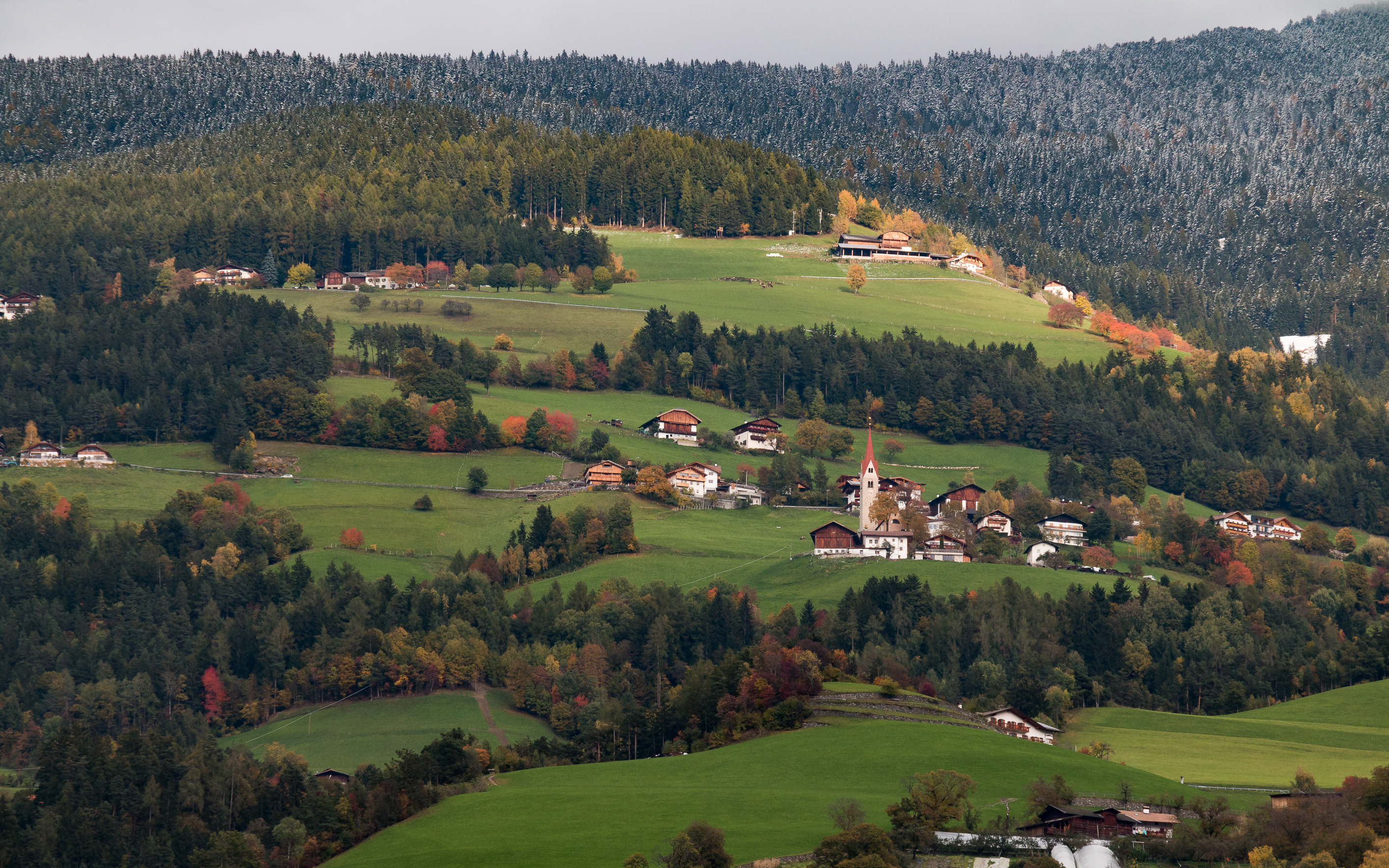 St. Leonhard in St. Andrä, as seen from Brixen